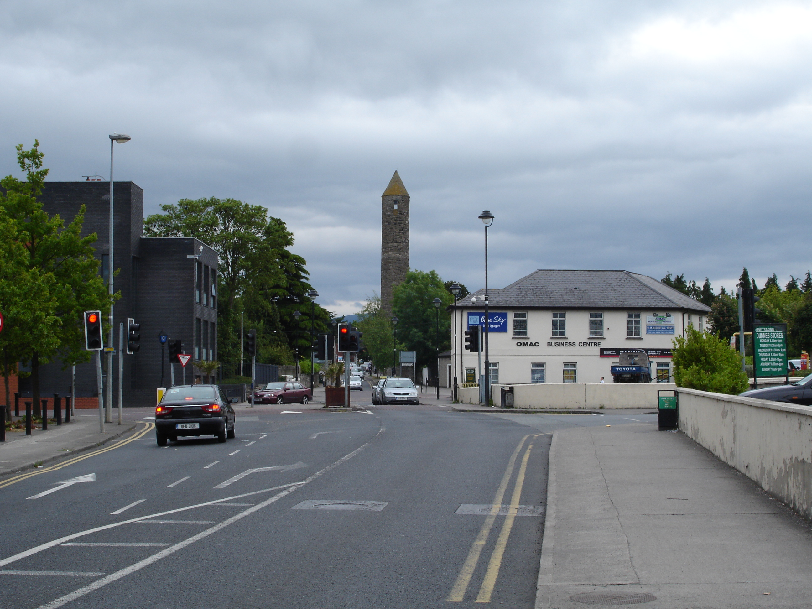 Clondalkin Round Tower